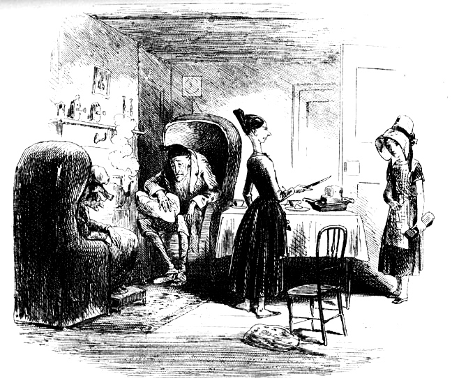 The Smallweed Family by "Phiz" (Hablot Knight Browne) for Bleak House, p. 208 [ch. 21, "The Smallweed Family"]. 4 1/4 x 4 1/2 inches.